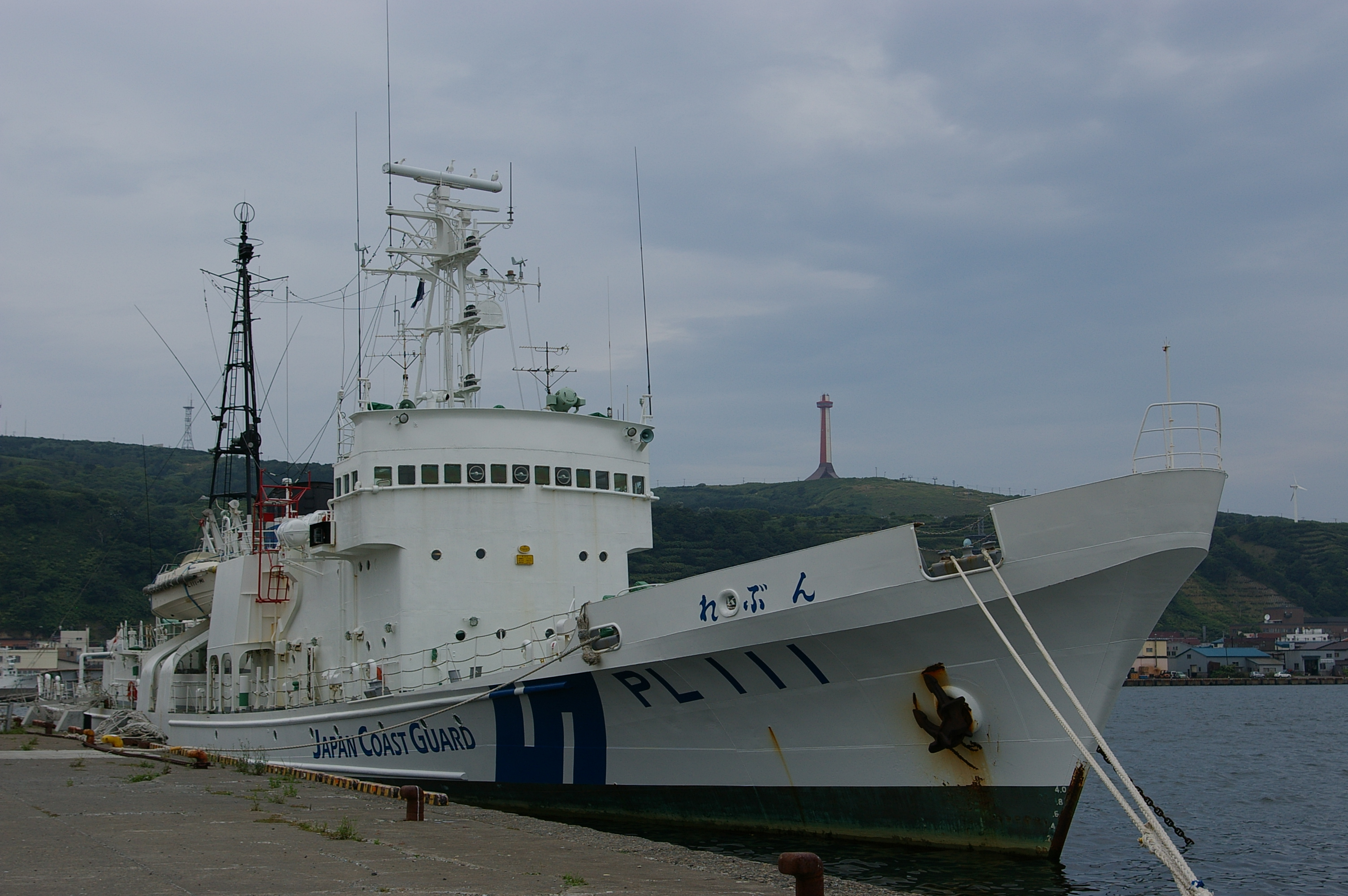 Japan coast guard SHIRETOKO type PL 111 REBUN, under anchorage in the Wakkanai harbor.